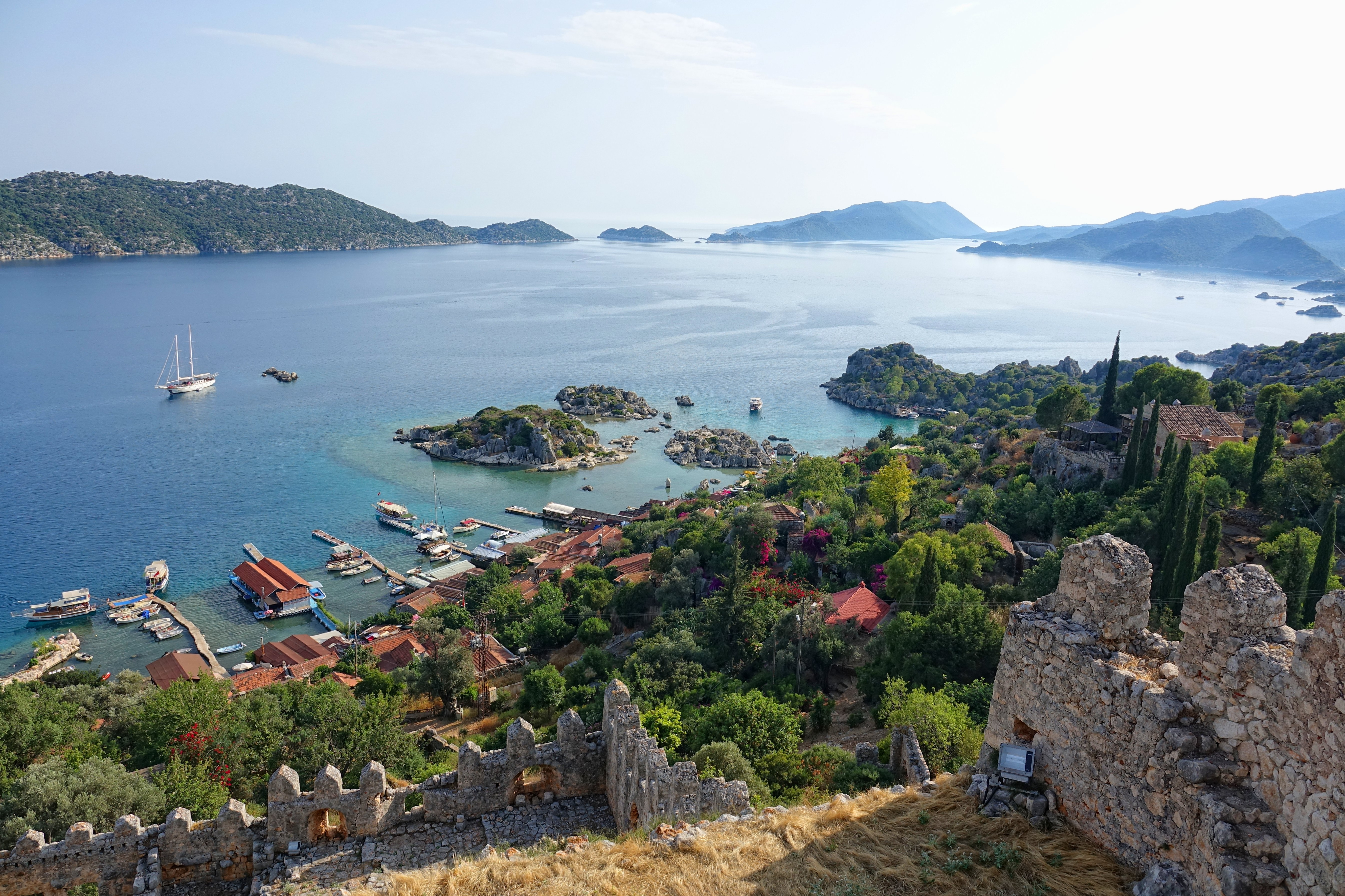 View from the Simena fortress on the hill on the northern side of Kaleköy village, looking south.